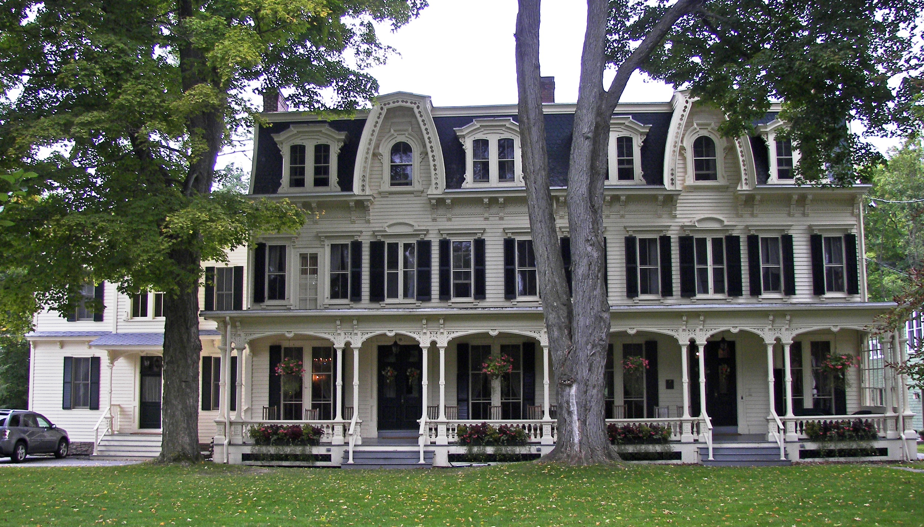 The Inn at Cooperstown, New York, built in 1874 as an annex to the Fenimore Hotel. Part of the Cooperstown Historic District.